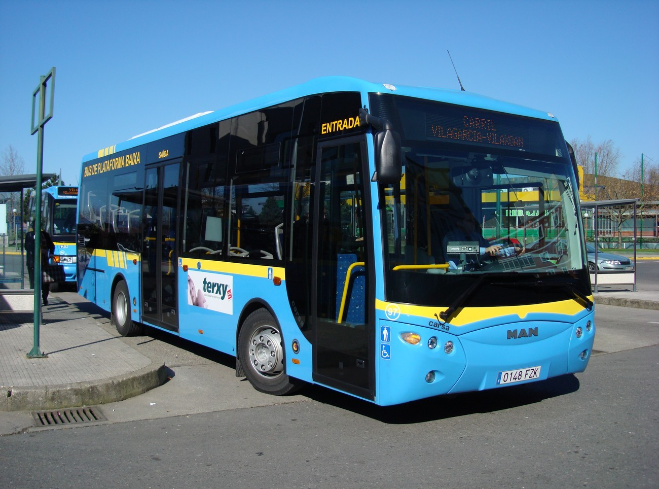 MAN 12.240 HOCL-NL chassis bus with Carsa CS40 Magnus body.